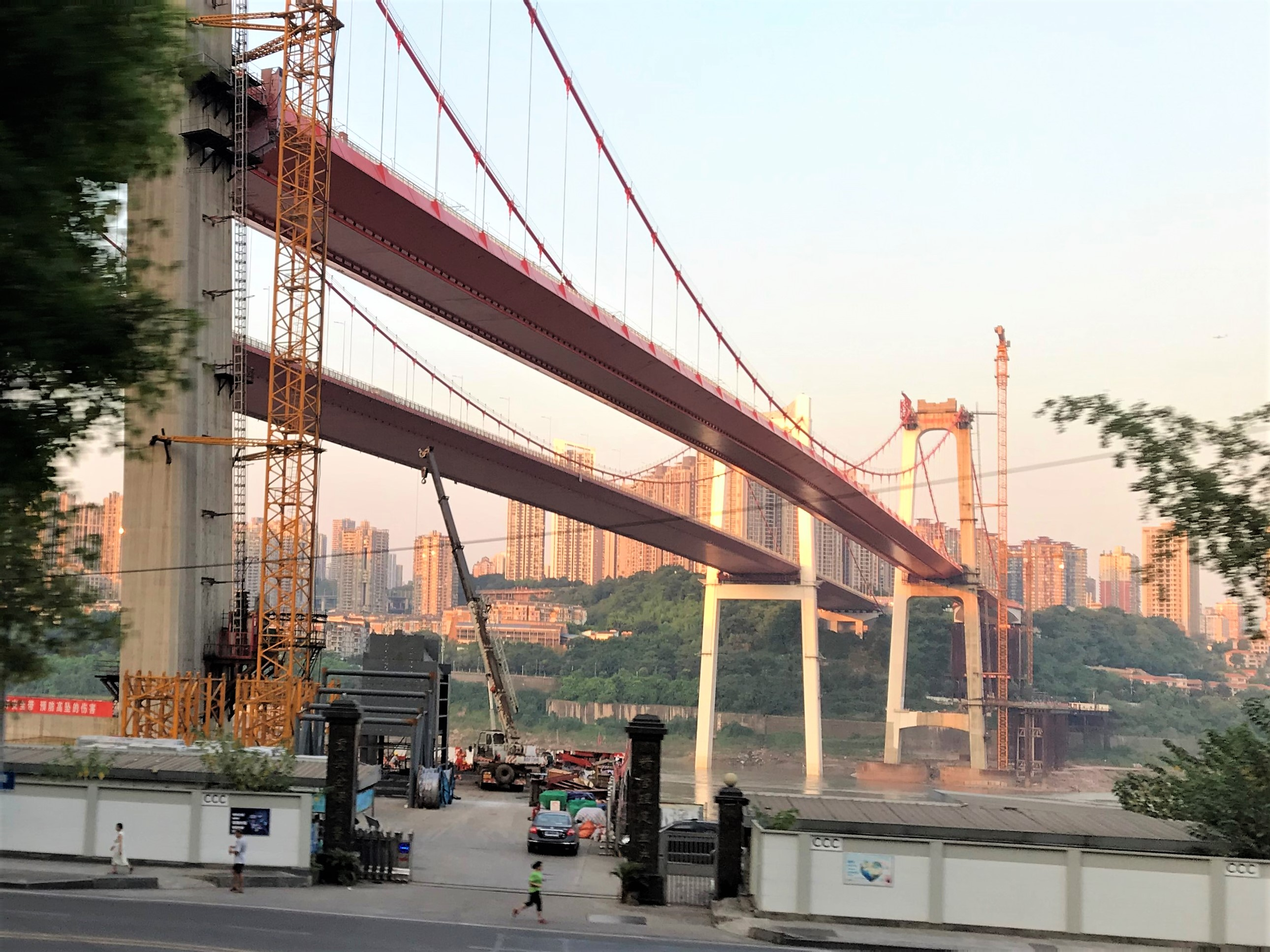 201908 Old and New Egongyan Yangtze River Bridge